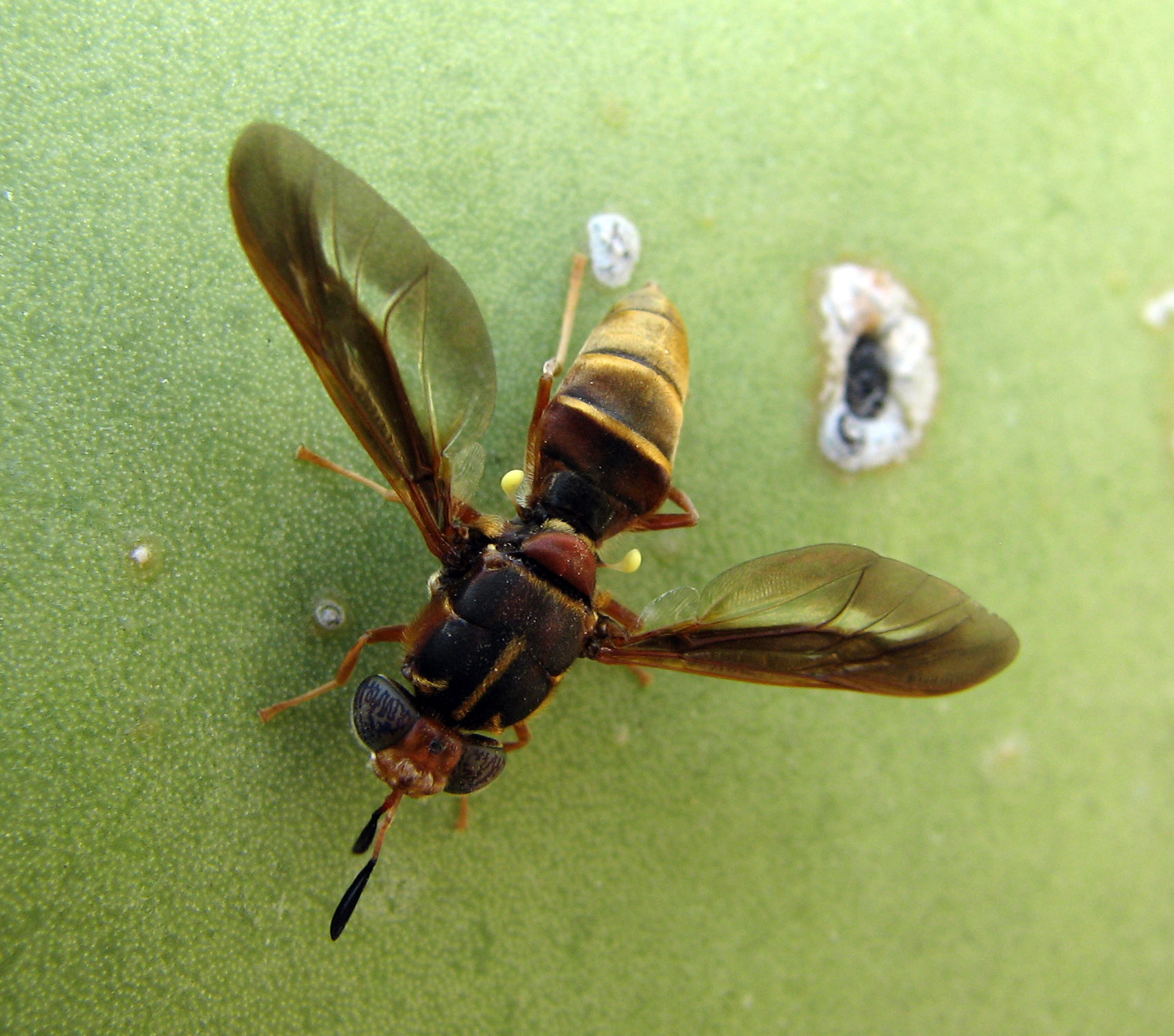 Hermetia comstocki. On an opuntia in my yard in Tucson, Arizona, USA. 26 April 2008. Here's a movie of the same fly waving its antennae.